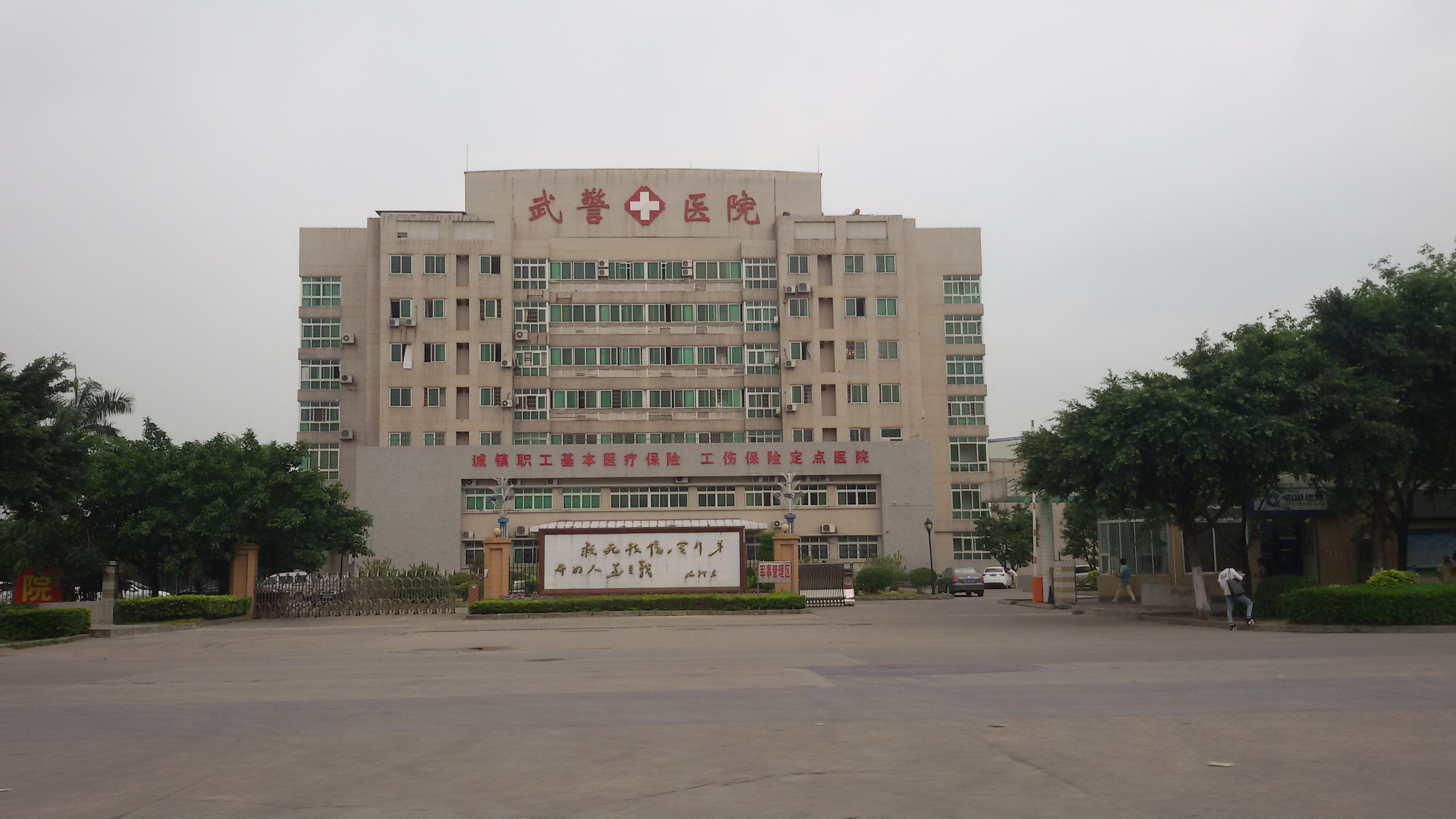 Huadu Armed Police Hospital (Cantonese: Faa Dou Mou Ging Ji Jyun)